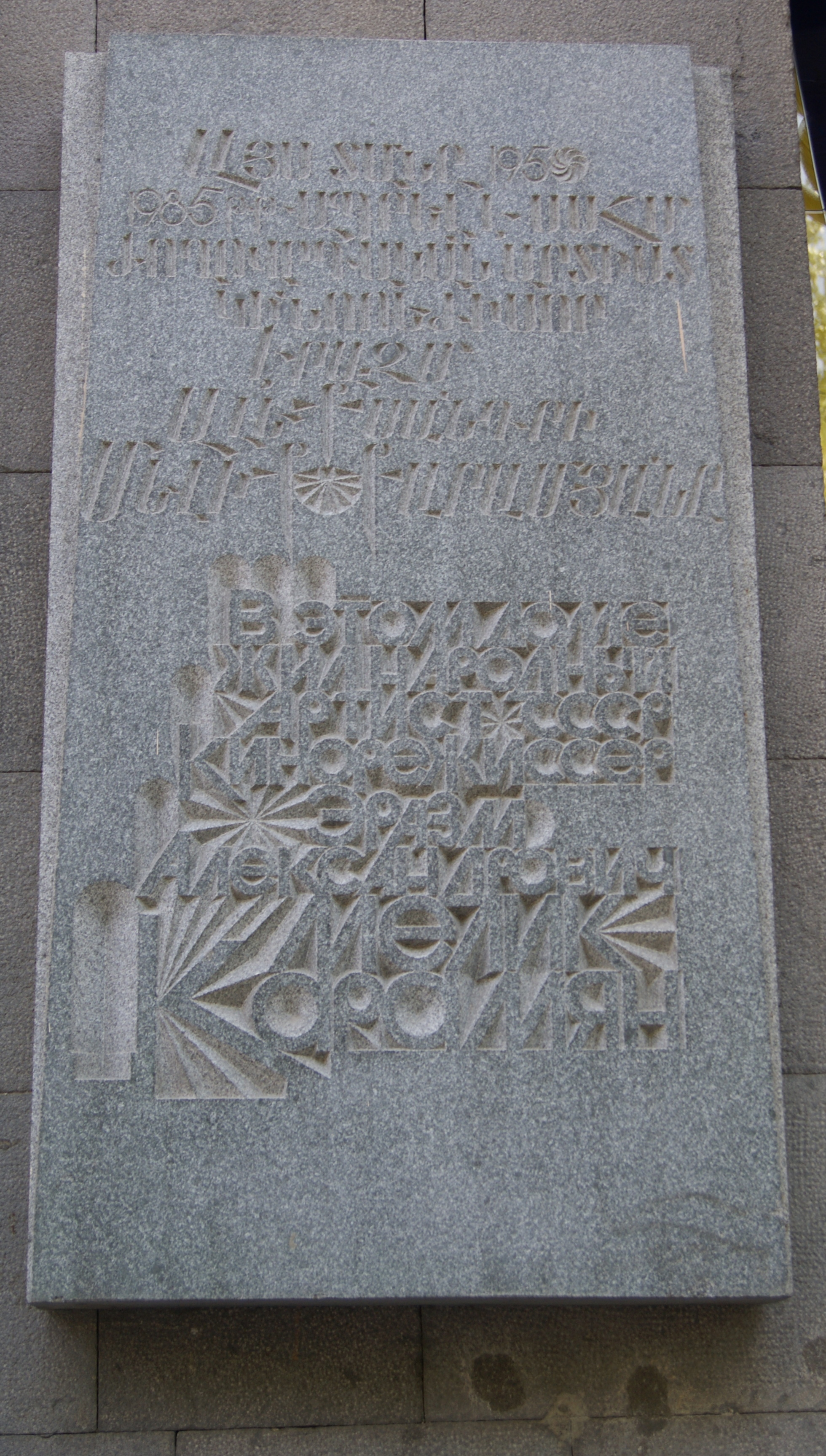 Erazm Melik Karamyan's Plaque